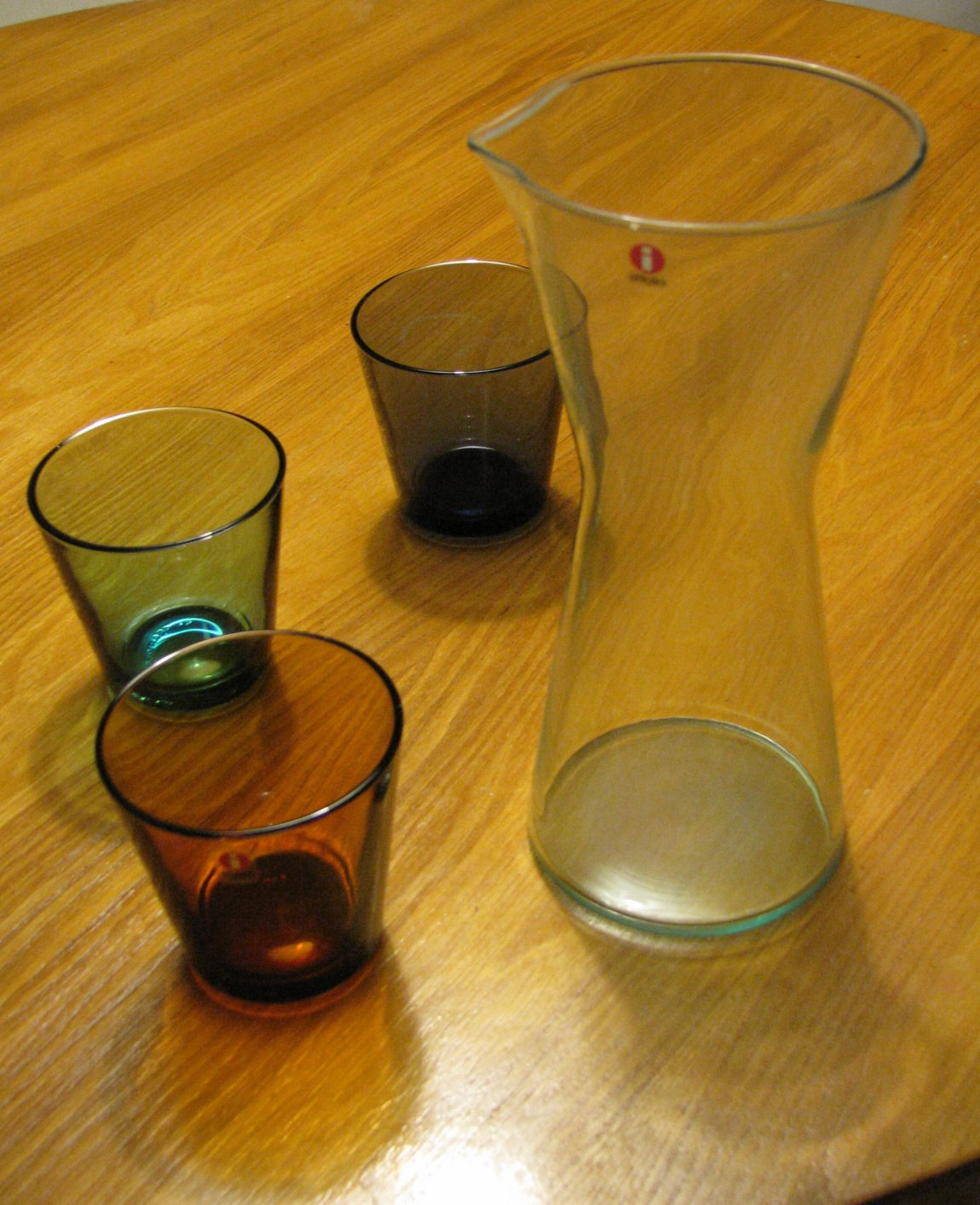 Kartio-glassware by Kaj Franck